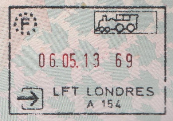 French entry stamp to the Schengen Area affixed in a Canadian passport at London St Pancras International railway station.